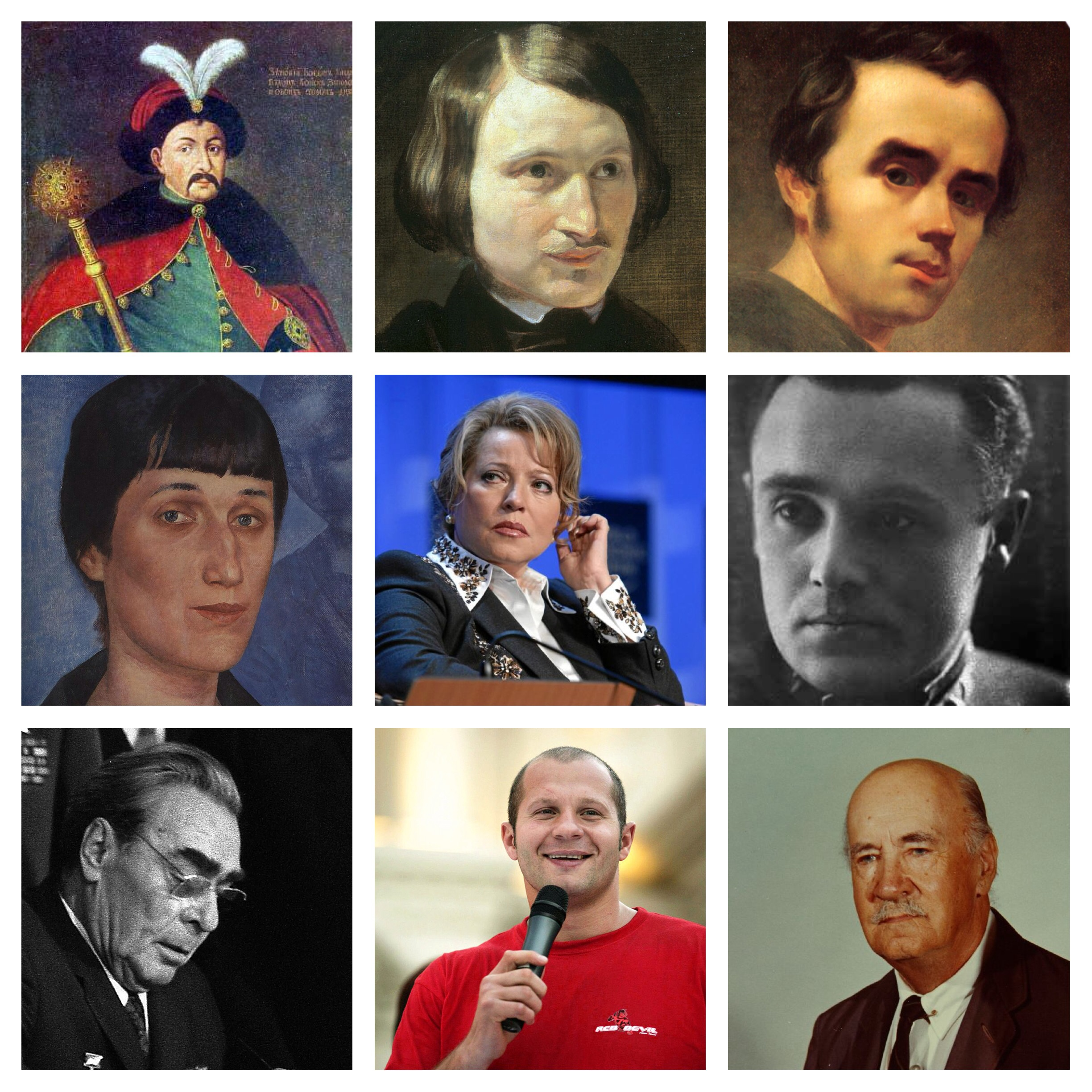 Collage of famous Ukrainians in Russia. Up (from left to right): Bohdan Khmelnytsky, Nikolai Gogol, Taras Shevchenko, Anna Akhmatova. Down (from left to right): Valentina Matviyenko, Sergey Korolyov, Leonid Brezhnev, Fedor Emelianenko.